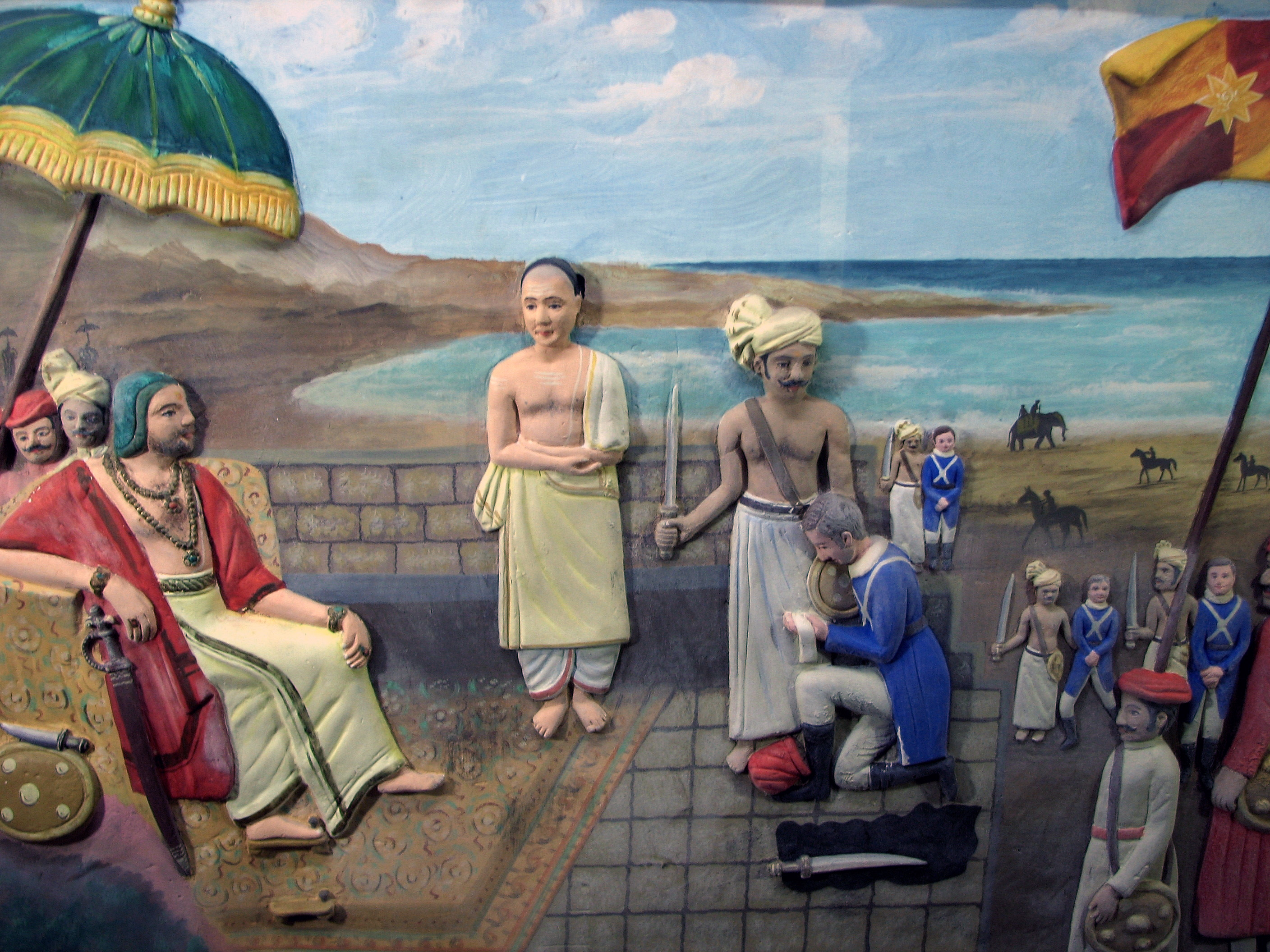 Self-made photograph ; Author's Name : Infocaster